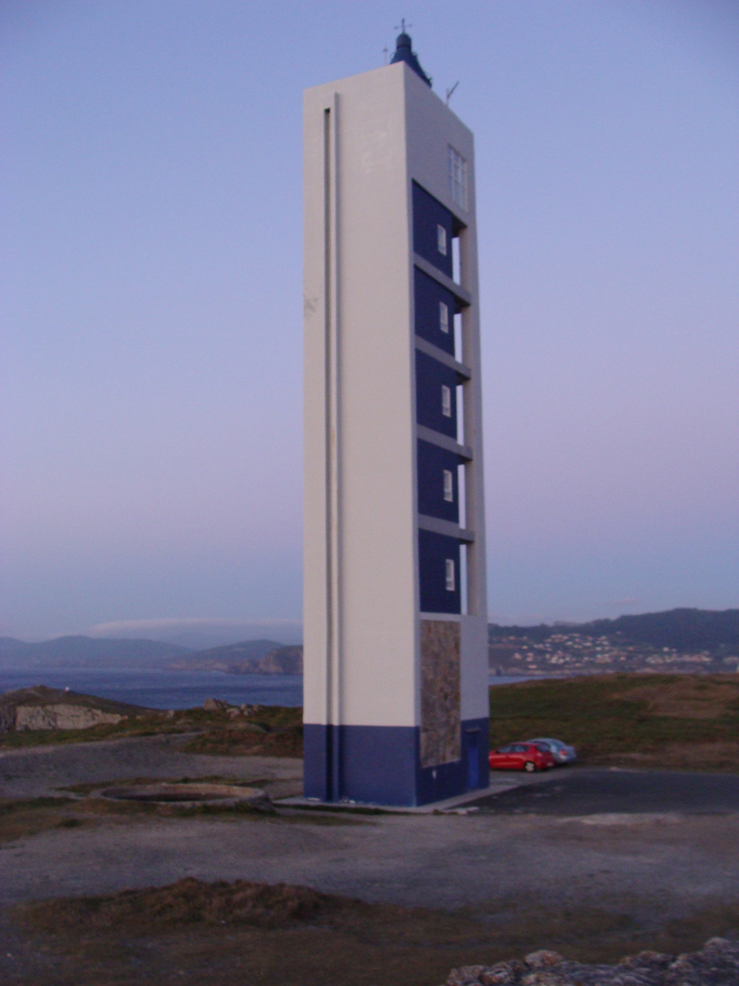 Punta Frouxeira Lighthouse, Valdoviño, Corunna, Galicia, Spain